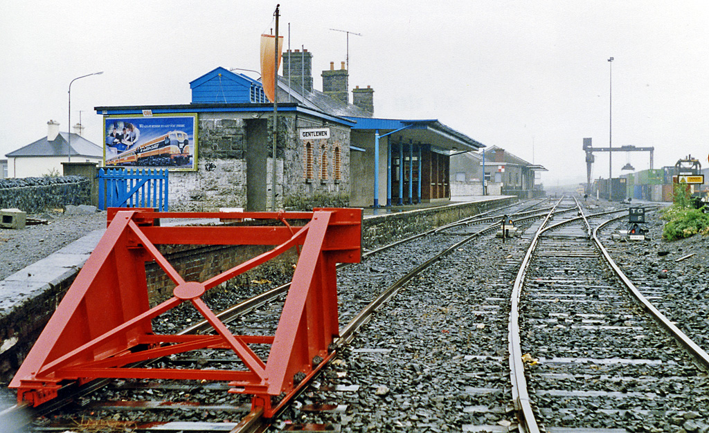 Ballina Station, Near to Ardnaree, Ballina, Bunree, Knocksbarrett and Crockets Town, Mayo, Ireland. View southward, towards Claremorris; ex-Midland Great Western Manulla Junction - Killala branch, cut back to Ballina from 2/7/34. Remarkably smart, newly painted.